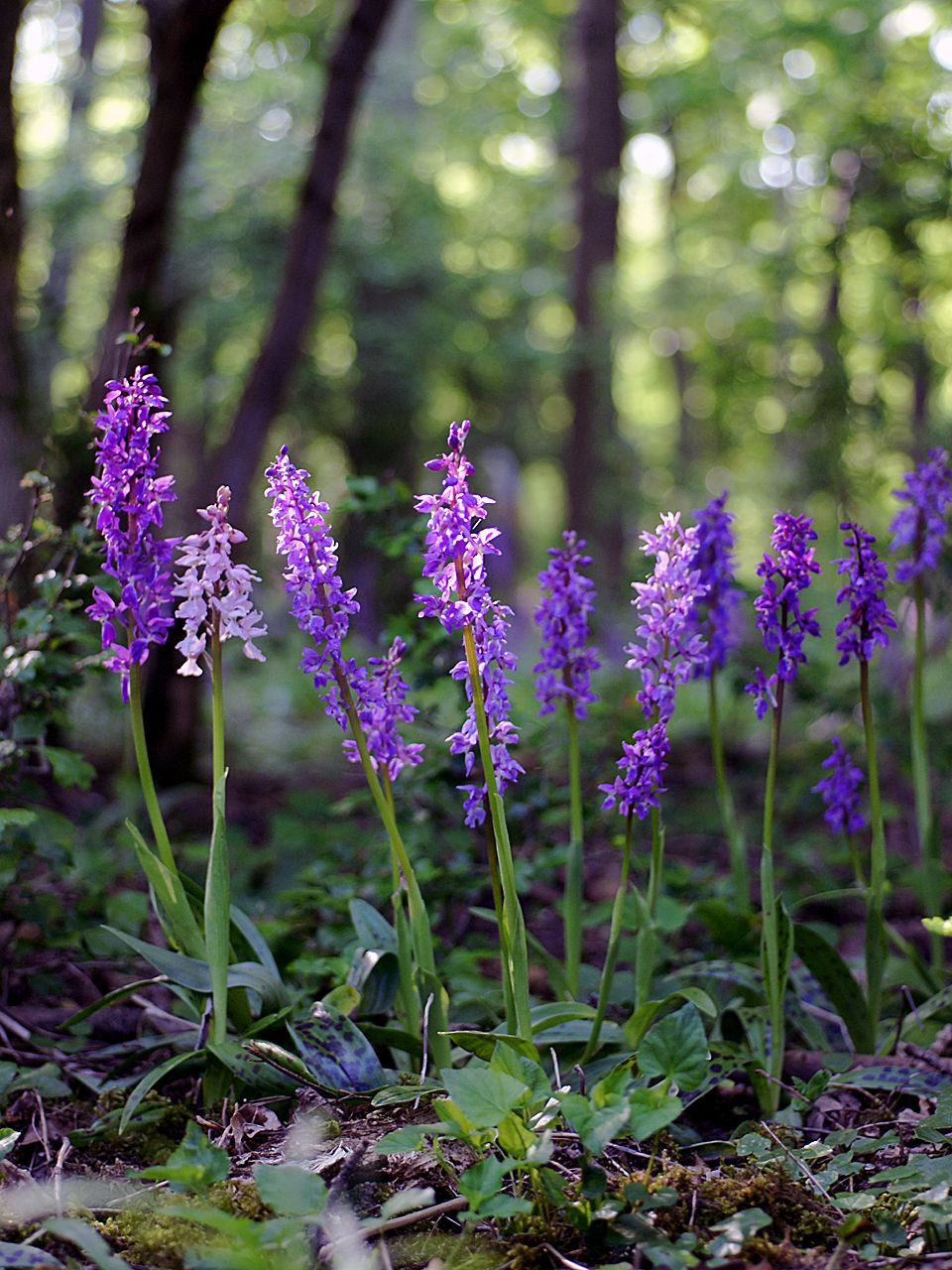 Orchis mascula